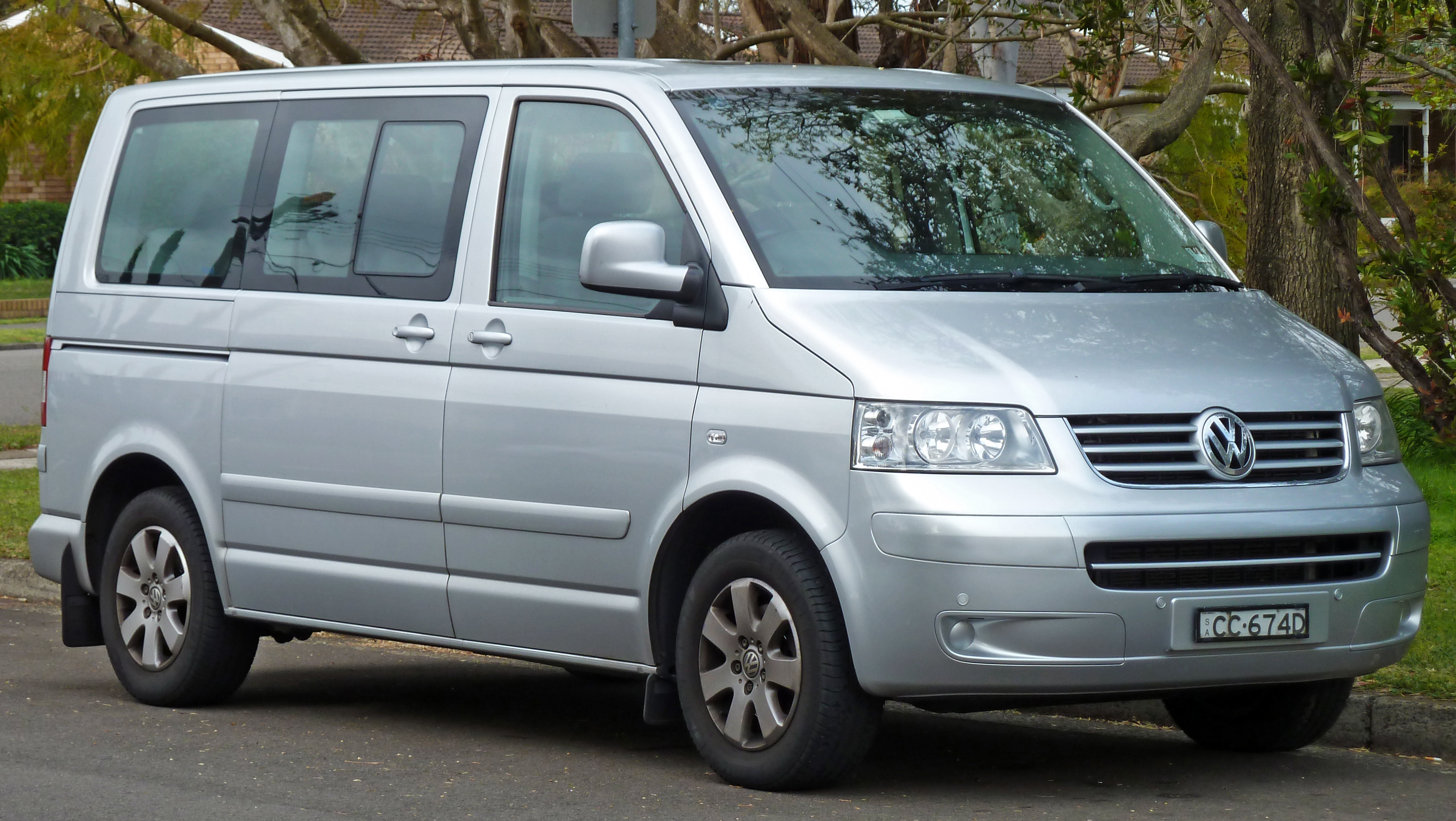 2004–2010 Volkswagen Multivan (7H) TDI van. Photographed in Sans Souci, New South Wales, Australia.